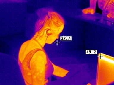 View of woman's body temperature (Eva form S., a.d. 2011).